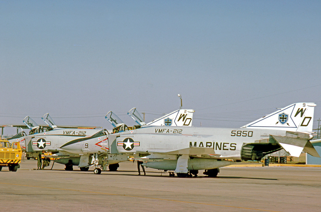 McDonnell F-4J Phantom II 155850 operated by Marine Squadron VMFA-212 in 1975